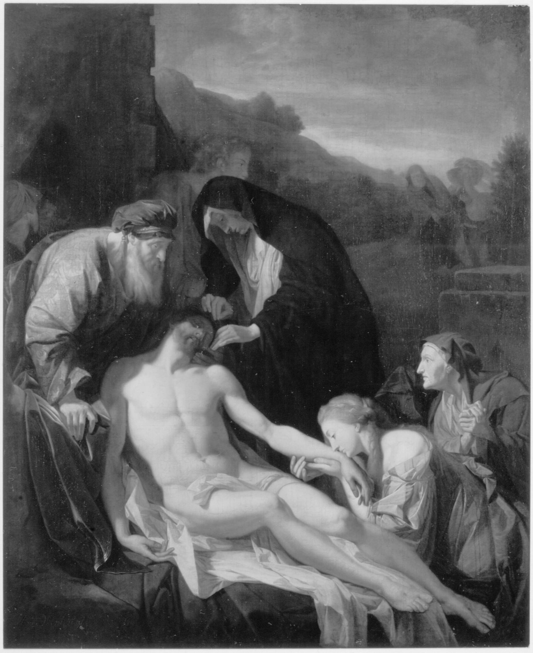 Workshop of Adriaen van der Werff. The entombment of Christ. 1696. oil on canvas. 102.5 × 83 cm. Amsterdam, Museum Amstelkring (Inventory number Br. 18).